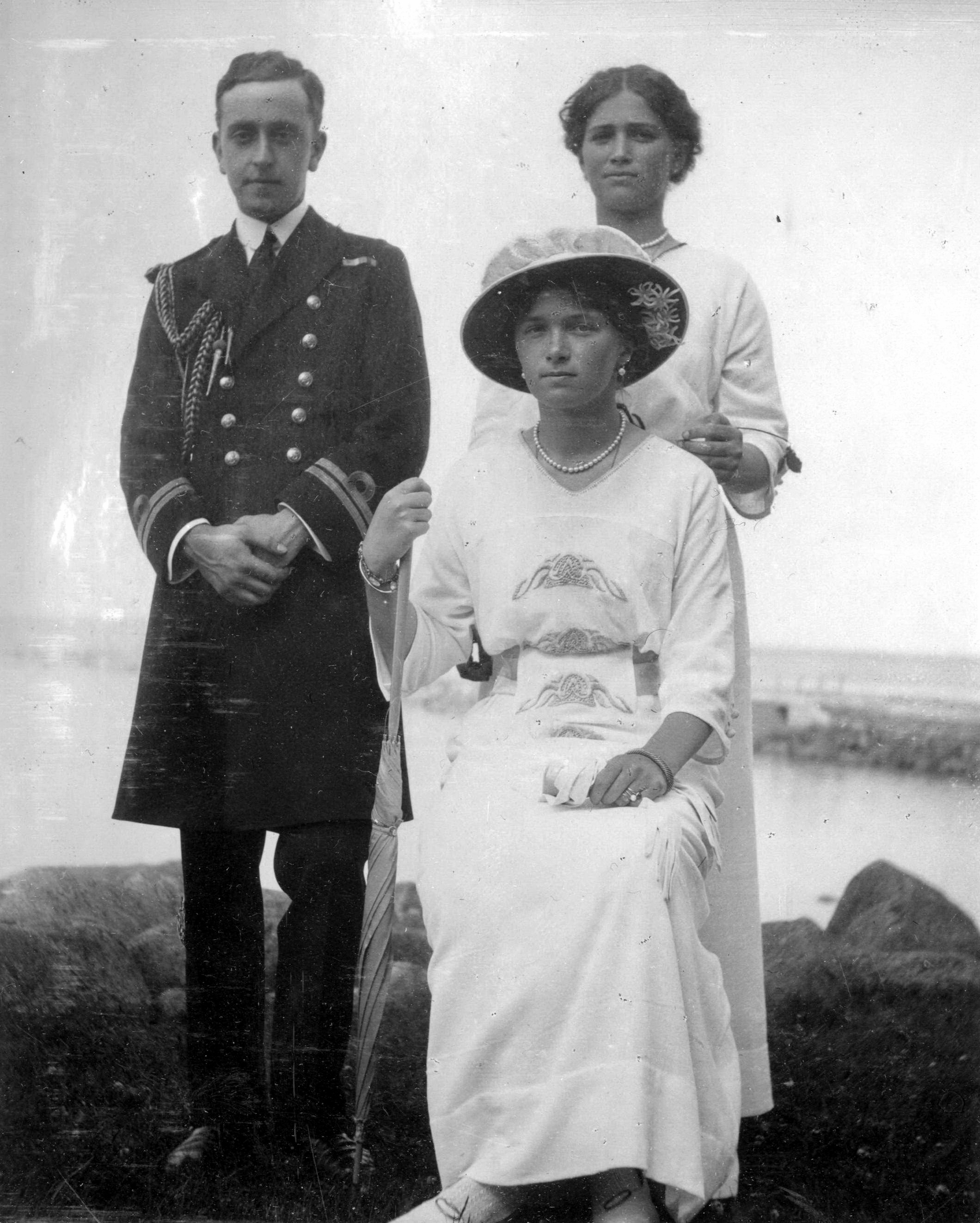 Grand Duchesses Olga (seated) and Maria Nikolaevna with their cousin Prince George of Battenberg on the beach of the Lower dacha in Peterhof.